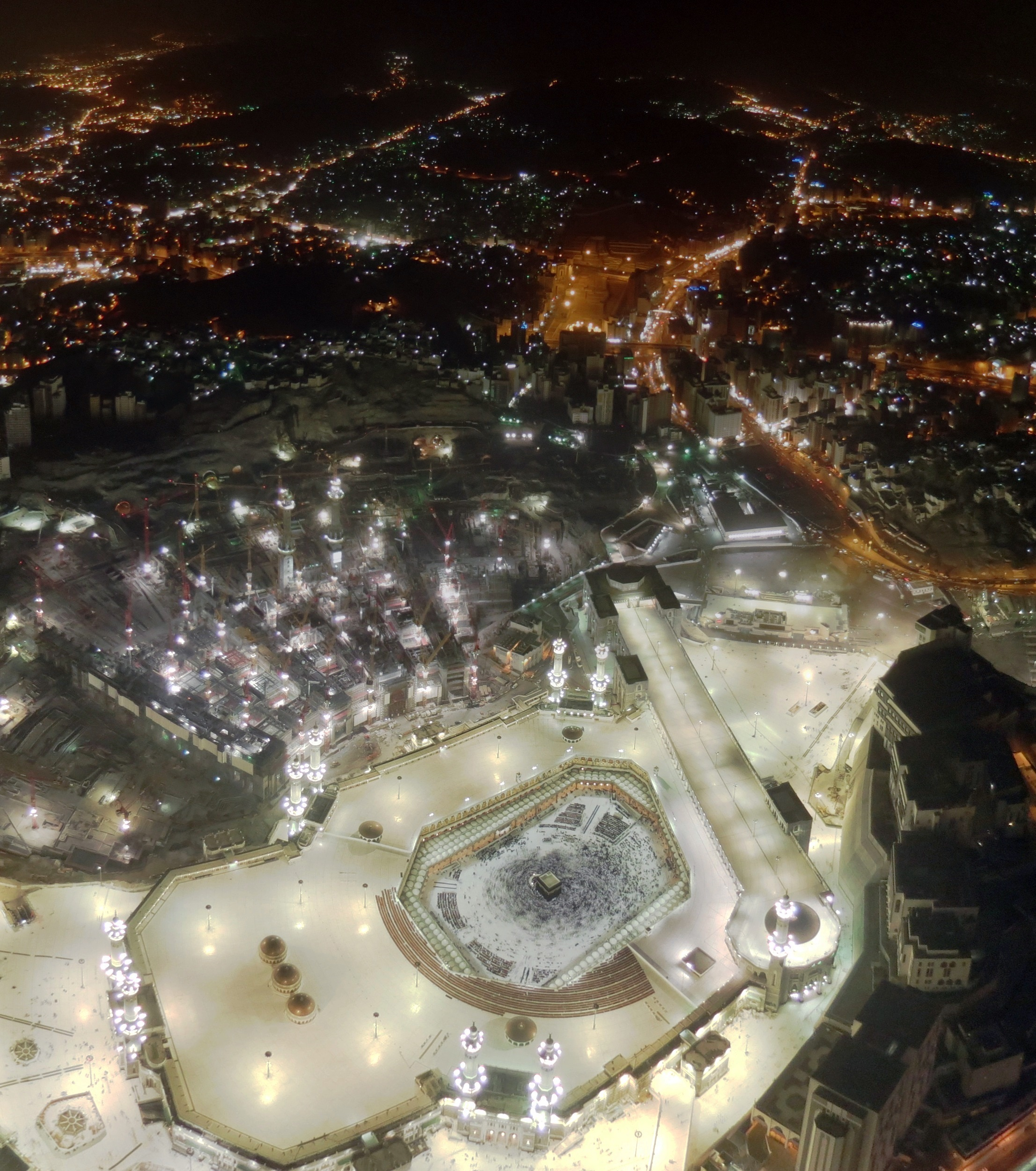 Aereal view of Masjid Al-Haram at night.